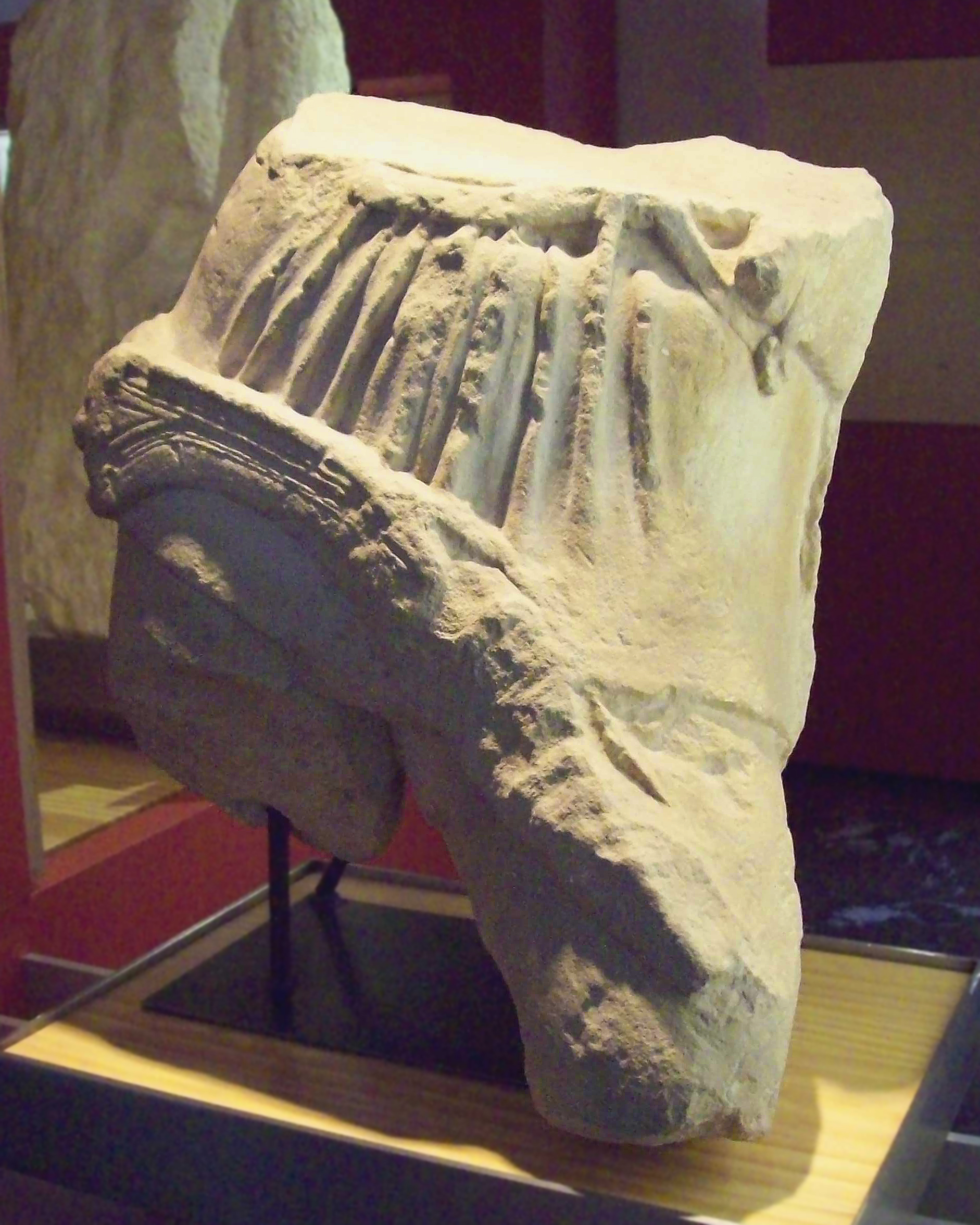 Fragment of an Iberian sculpture of a warrior wearing a short tunic and brandishing a falcata. It maybe was part of a Heroon-type sculptural group.